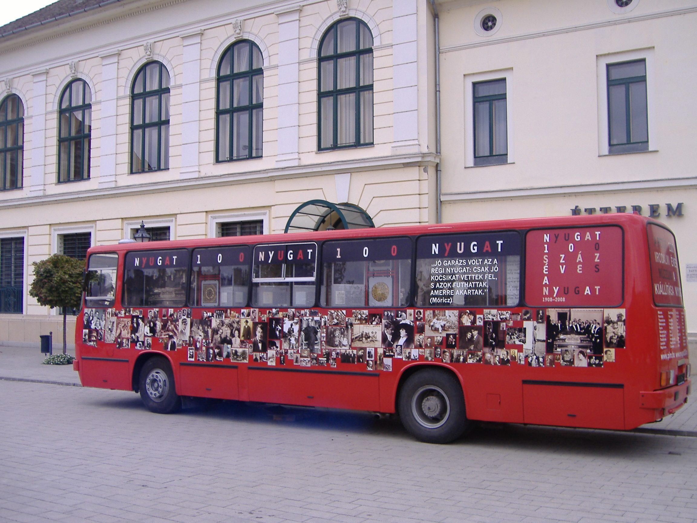 An exhibition commemorating to the 100th anniversary of the Nyugat, a Hungarian literary journal, probably the most important in the first half of the 20th century. In was situated whitin the bus, and stopped in many Hungarian cities. In the picture it is parking in Makó.